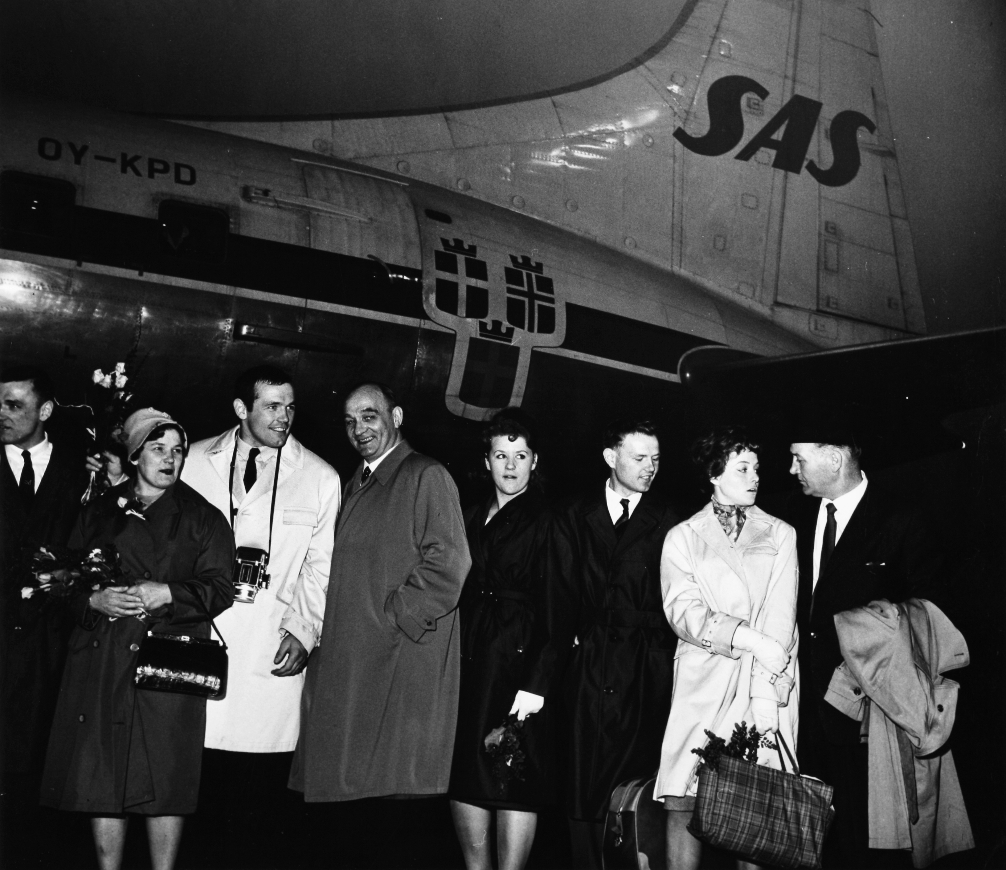 Thrid from left Ingemar Johansson and the promotor Edwin Ahlqvist 1950s, flow with Convair 440 Metropolitan Ravn Viking OY-KPD.